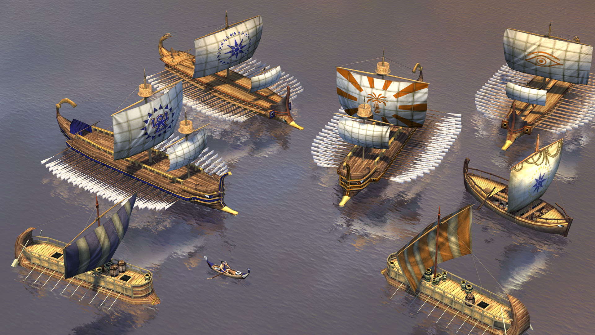 0 AD cartagenian triremes